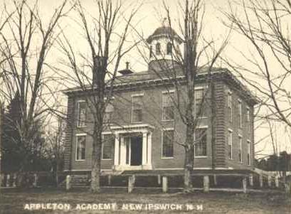 Appleton Academy, New Ipswich, NH; from a c. 1910 postcard.